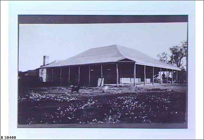 Mout Eba Homestead ca.1912